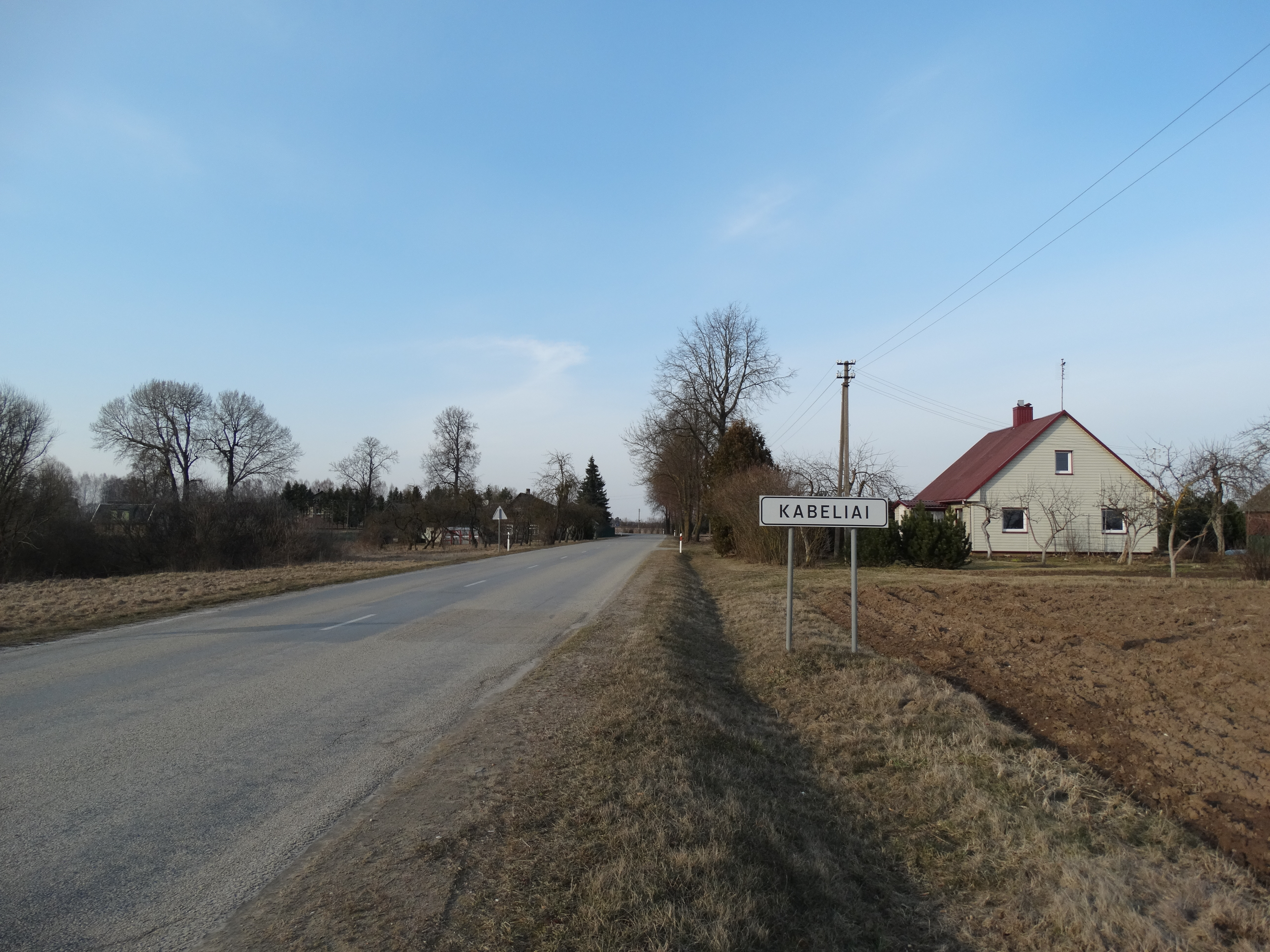 Kabeliai, Panevėžys district, Lithuania